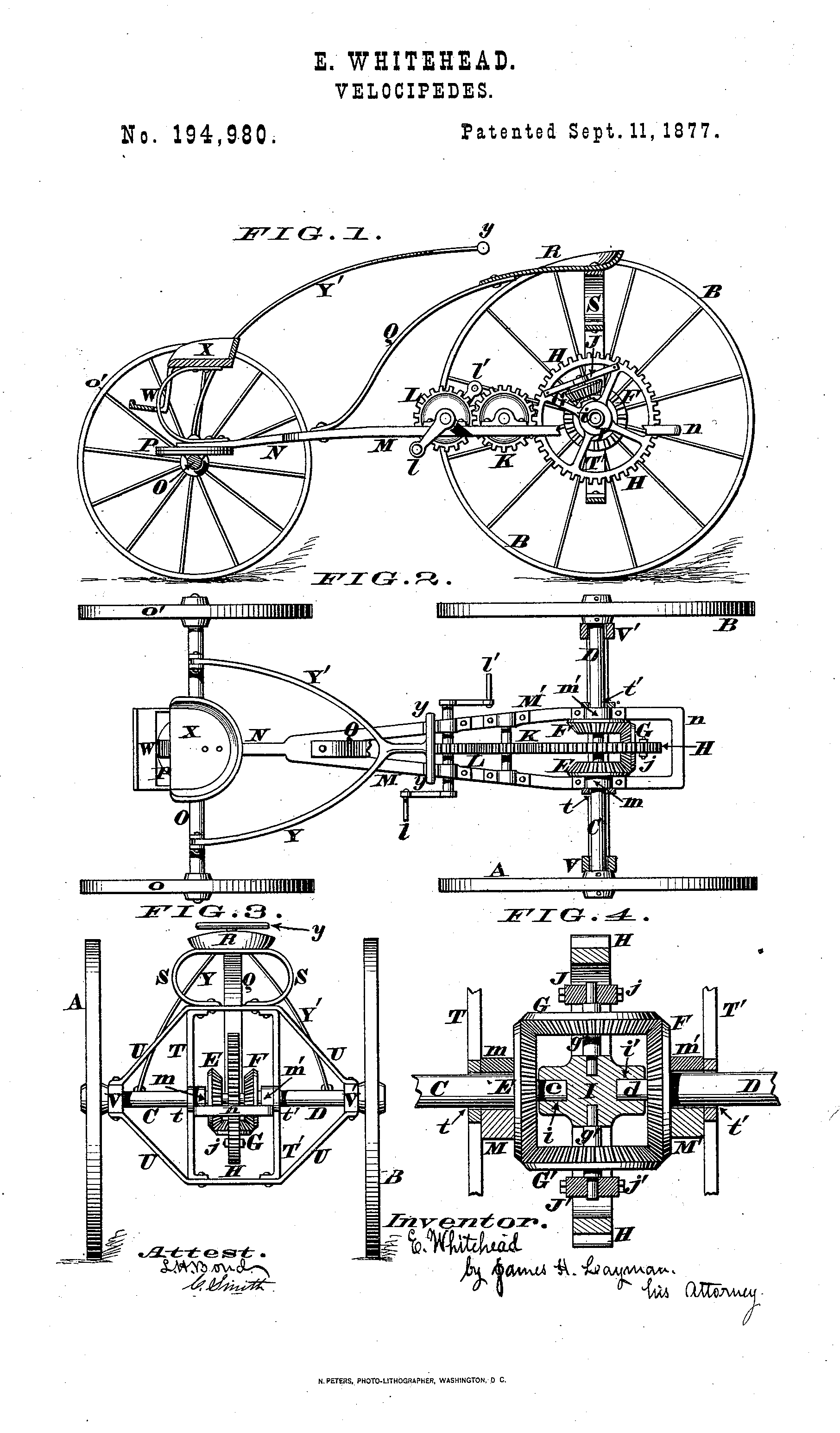 This is a drawing in US Patent 194980 used to illustrate a case involving the patent--file Pope Mfg. Co. v. Gormully